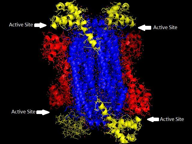 The catalyti domains of ASL